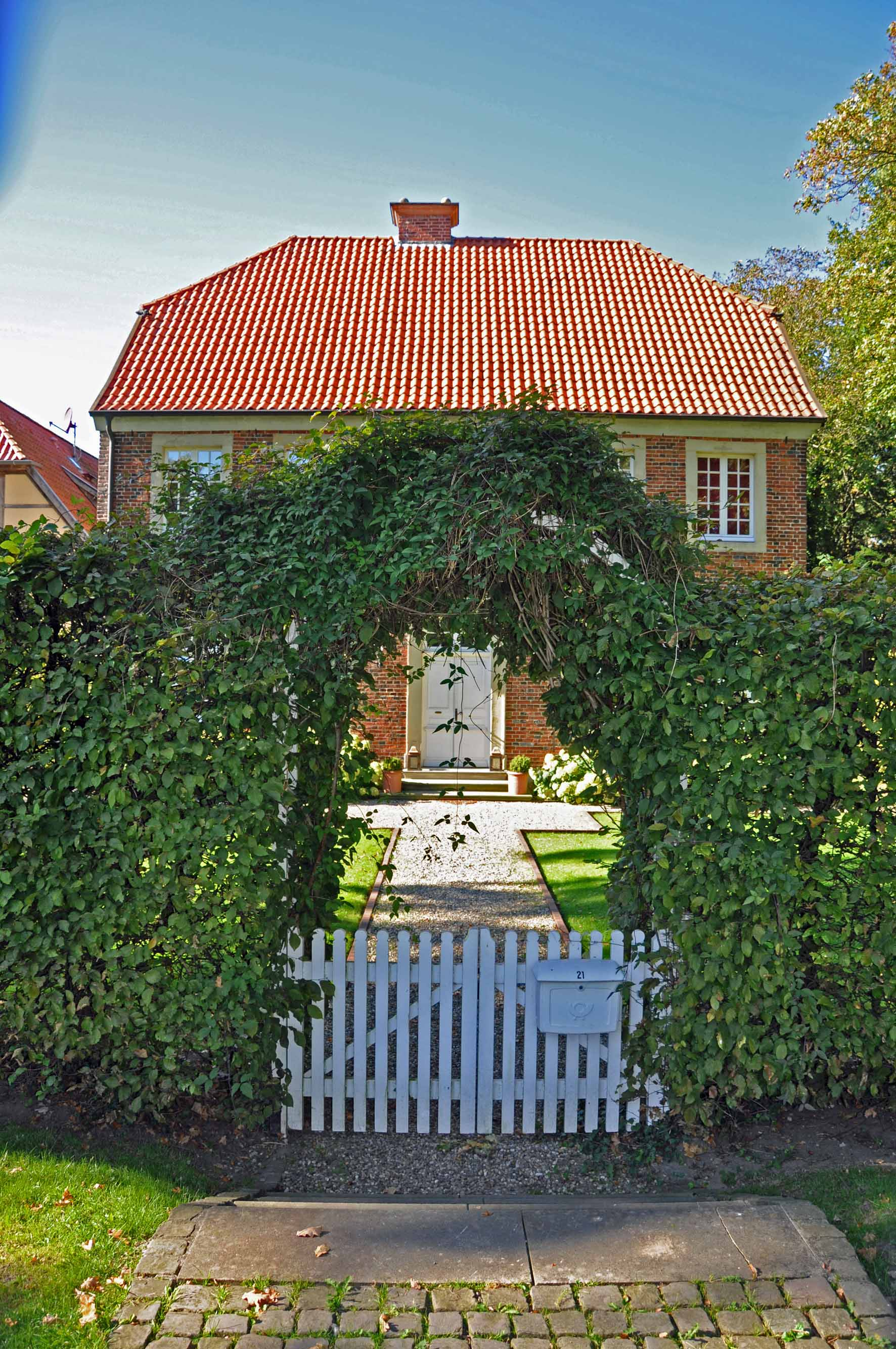 Old forester's house at Darfeld water castle